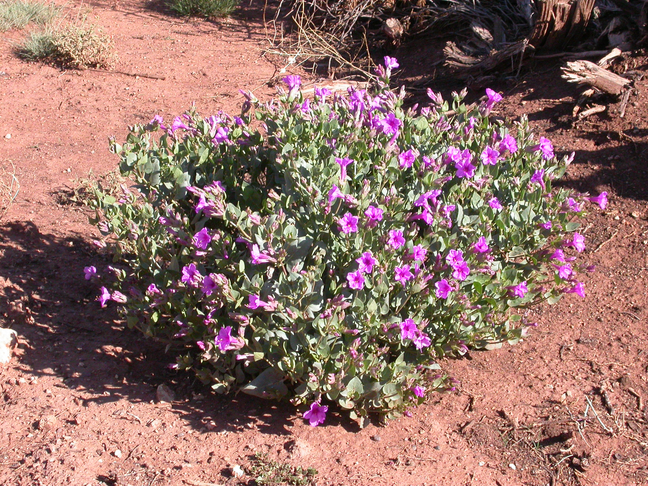 Northeast of Valle, Arizona.